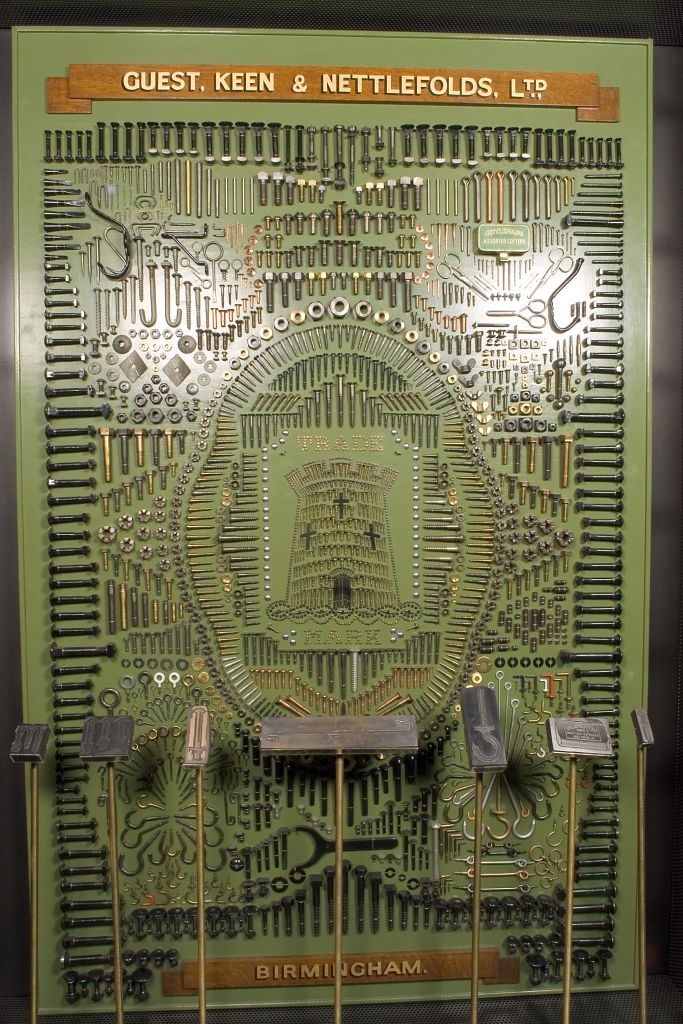 Display panel showing products of Guest Keen & Nettlefold Ltd. in decorative form. Editing Undertaken: Unsharp Mask